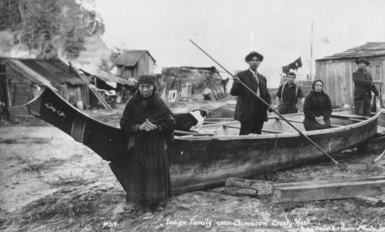 Klallam people near canoe American Memory from the Library of Congress Klallam Indians (the Hicks family) pose with canoe near Chimacum Creek, Washington, ca. 1914 CREATED/PUBLISHED Torka's Studio, United States--Washington (State)--Port Townsend, ca. 1914 NOTES Older woman in head scarf & shawl over her shoulders stands at the prow of a beached canoe, ca. 1908-1920. Two men & a woman pose inside the canoe with paddle & spear, a man in his shirt sleeves stands beind them. Various small houses visible in the background. Caption on image: No. 314. Indian family near Chimacum Creek, Wash. Torka's Studio, Port Townsend, Wash. Reference number for image in collection no. 564: Cb-2 Notes from James Hermiston: Hicks family, Klallam, Lillian Hicks' grandmother on left; canoe built by Prince of Wales, Chetzemoka's son. SUBJECTS Hicks family Klallam Indians--Structures Klallam Indians--Transportation Indian encampments--Washington (State)--Chimacum Canoes United States--Washington (State)--Chimacum Photographs REPRODUCTION NUMBER NA681 REPOSITORY University of Washington Libraries SOURCE COLLECTION General Indian Collection no. 564 DIGITAL ID [1]